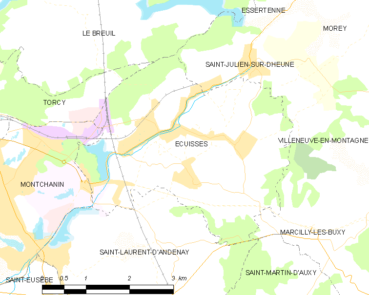 Map of French municipality